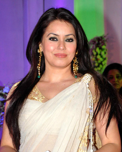 Mahima Chaudhry at Miraj Group Chairman's daughter Devhooti & Vikas Purohit's reception